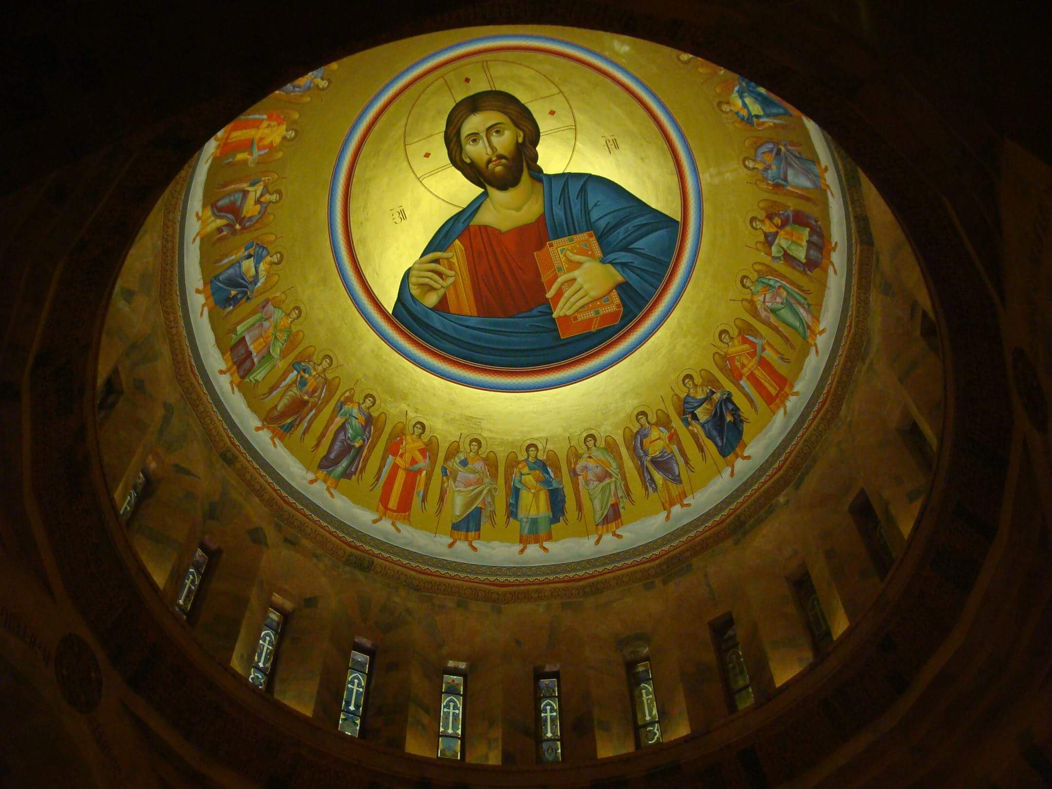 Saint Hovhannes church of Abovyan, 5 January 2016.